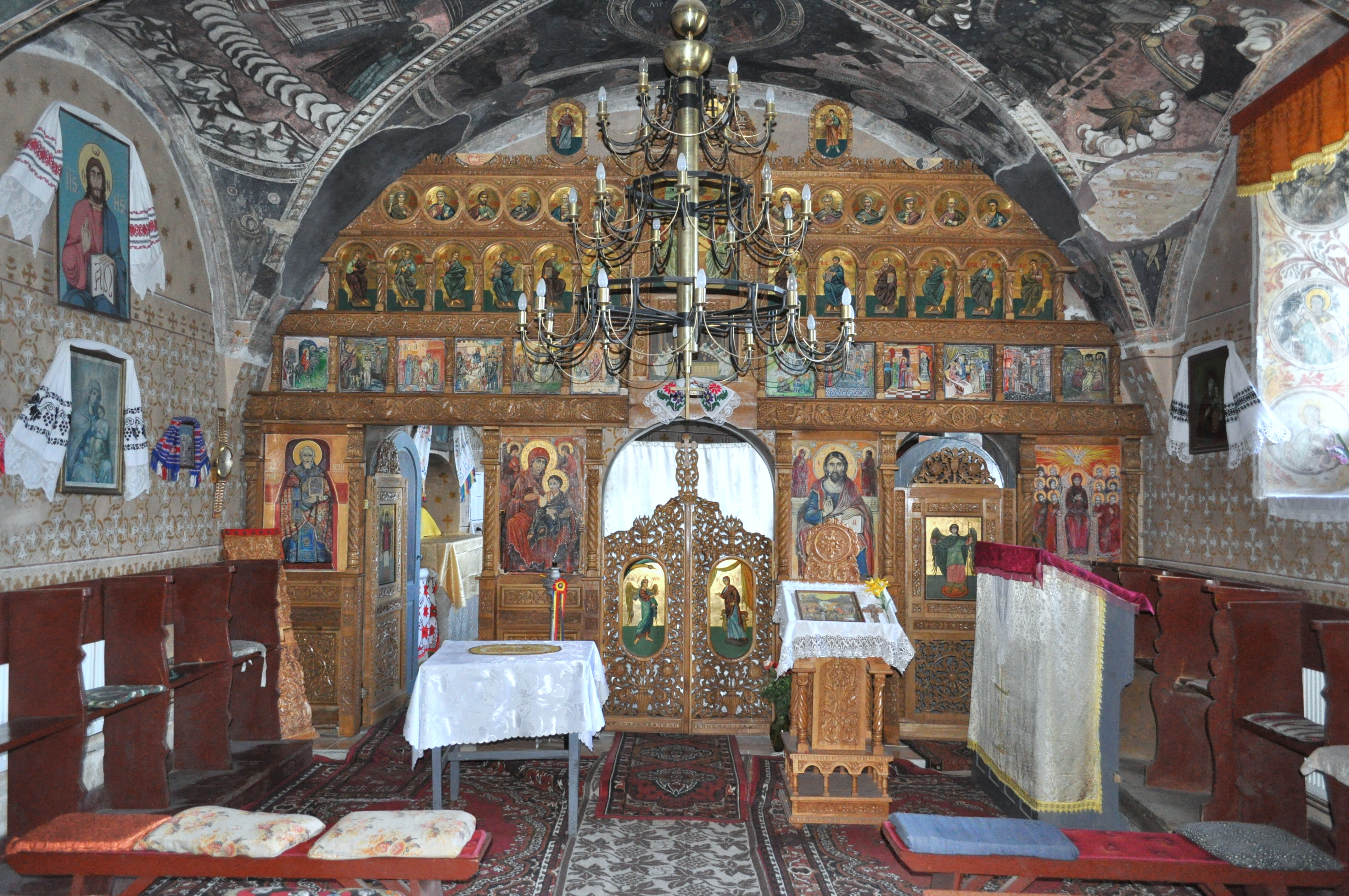 The church of the Descent of the Holy Spirit in Micești, Cluj county, Romania